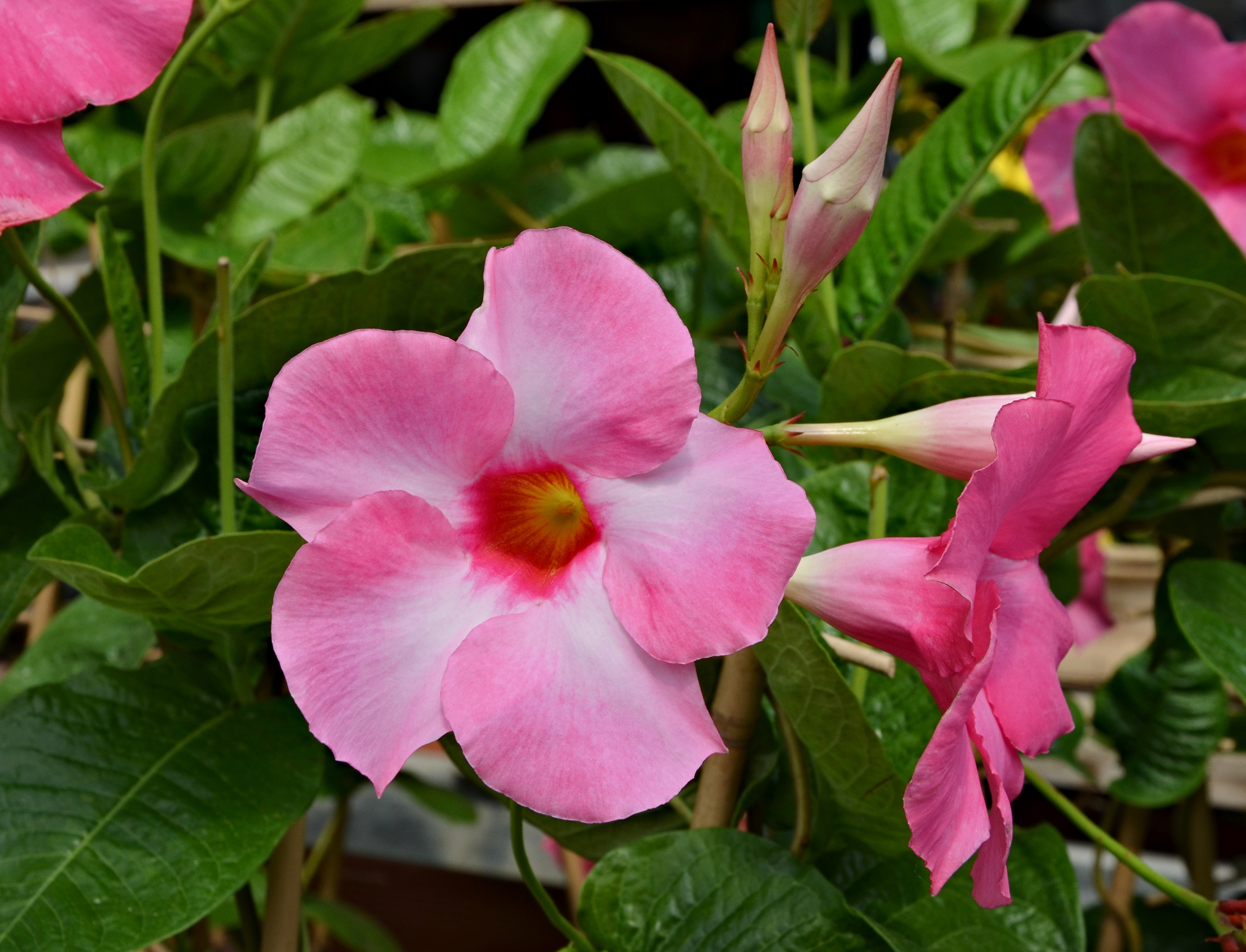 Dipladenia (Mandevilla Sanderi), flowers and buds, in a garden, France.